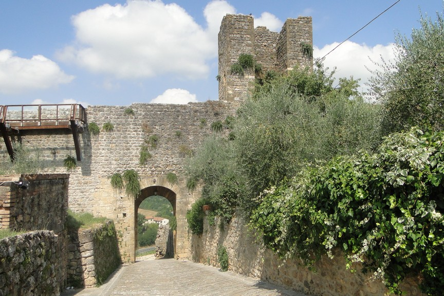 Monteriggioni fortess gate